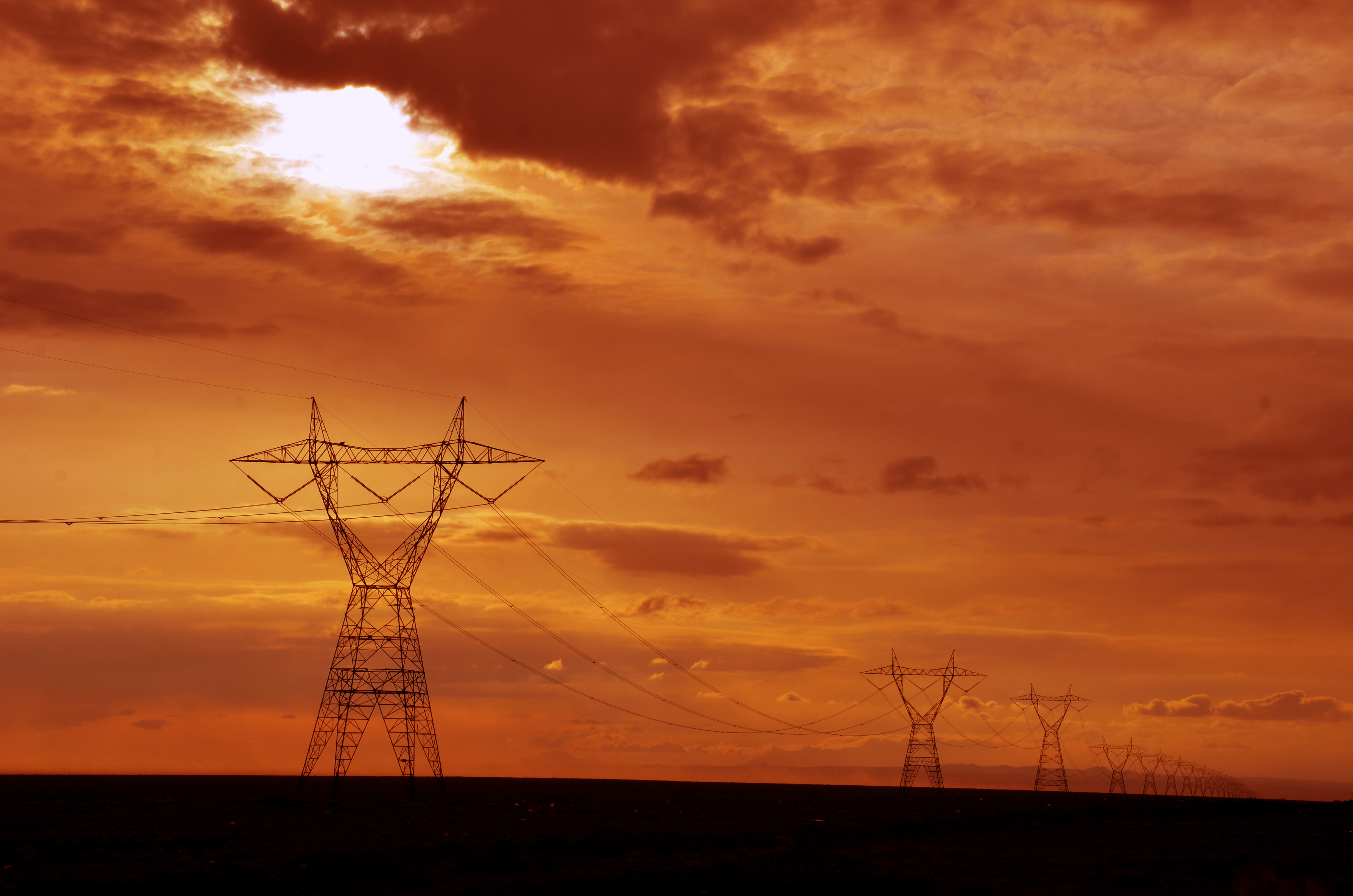 Pylons of a single-circuit 400 kV overhead power line in Razavi Khorasan Province, Iran; seen from the Shahroud–Sabzevar road